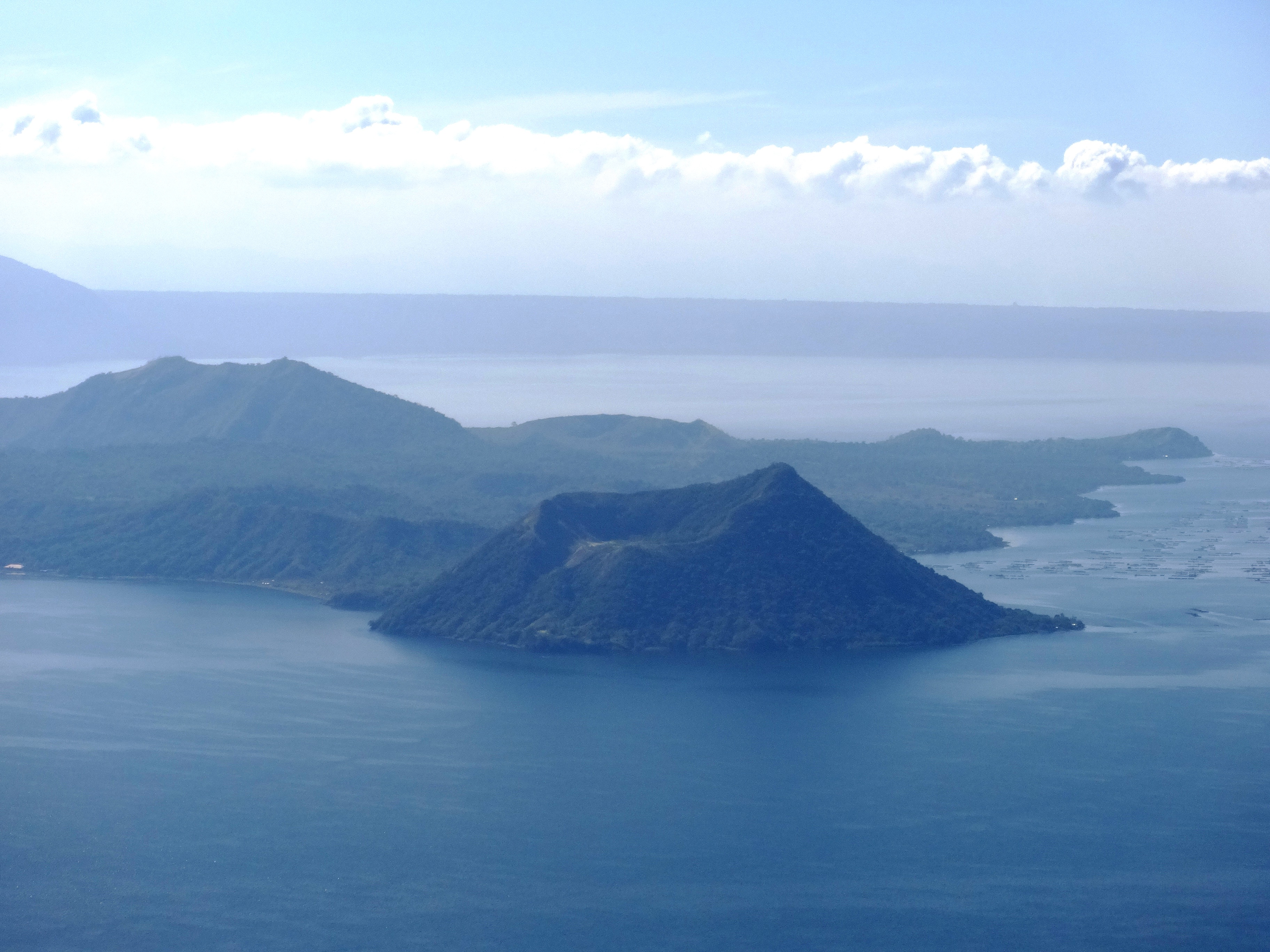 Close-up view of Taal Volcano Island from a restaurant in Tagaytay, Cavite